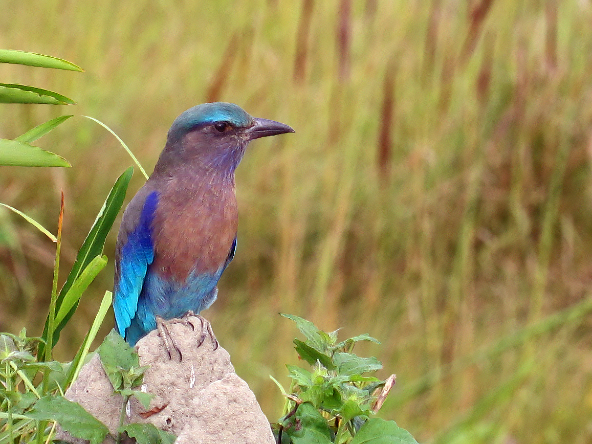 Indochinese Roller Coracias affinis in the Kaziranga National Park, Assam